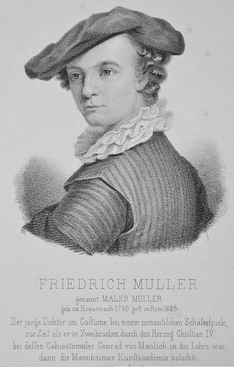 Maler Müller (Friedrich Müller 1749-1825) als junger Mann